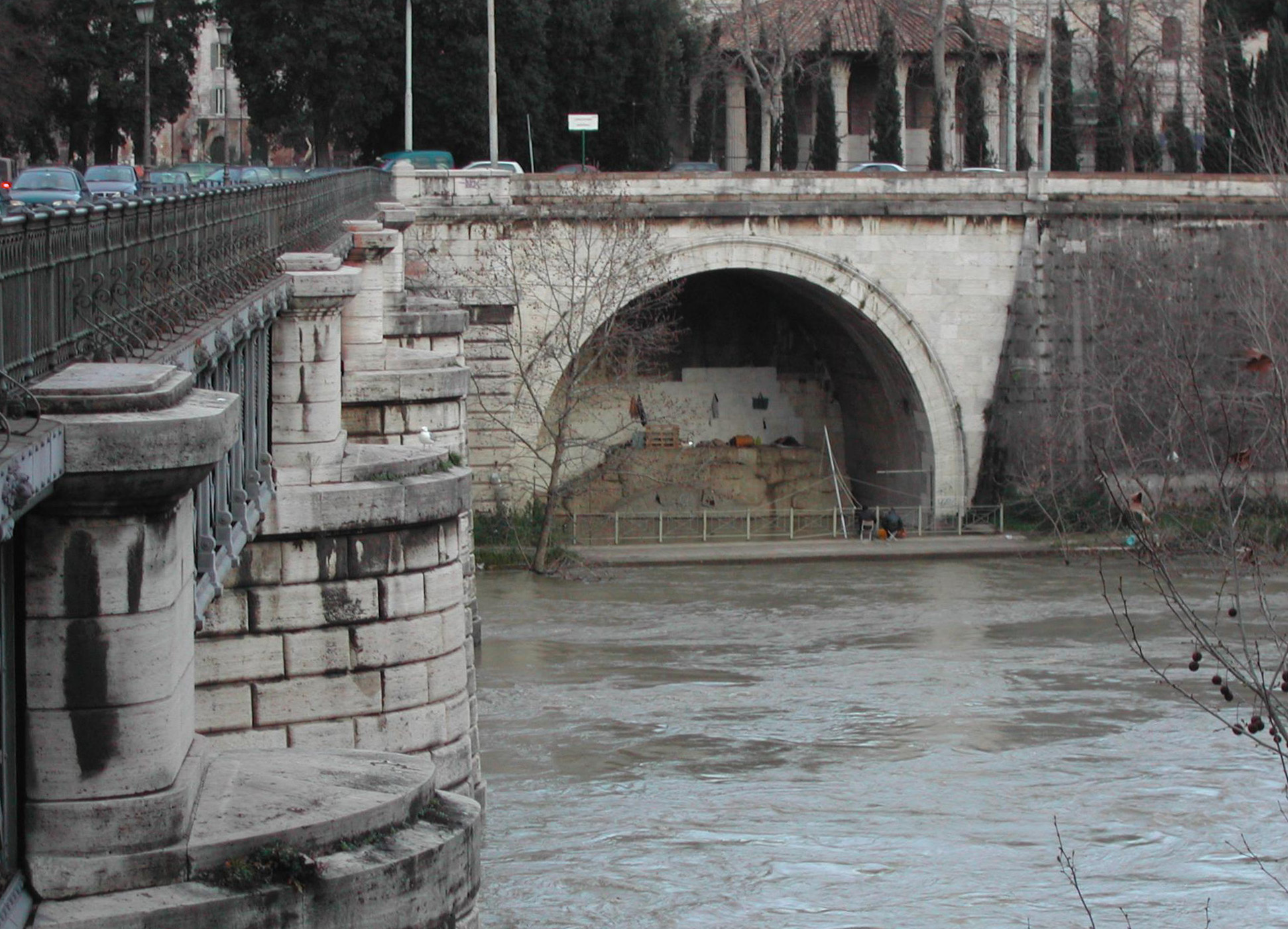 Rome, the Tiber: the mouth of the Cloaca Maxima